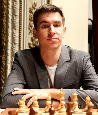 Dmitry Andreikin at Superfinal of the Russian Chess Championship, Satka, 2018